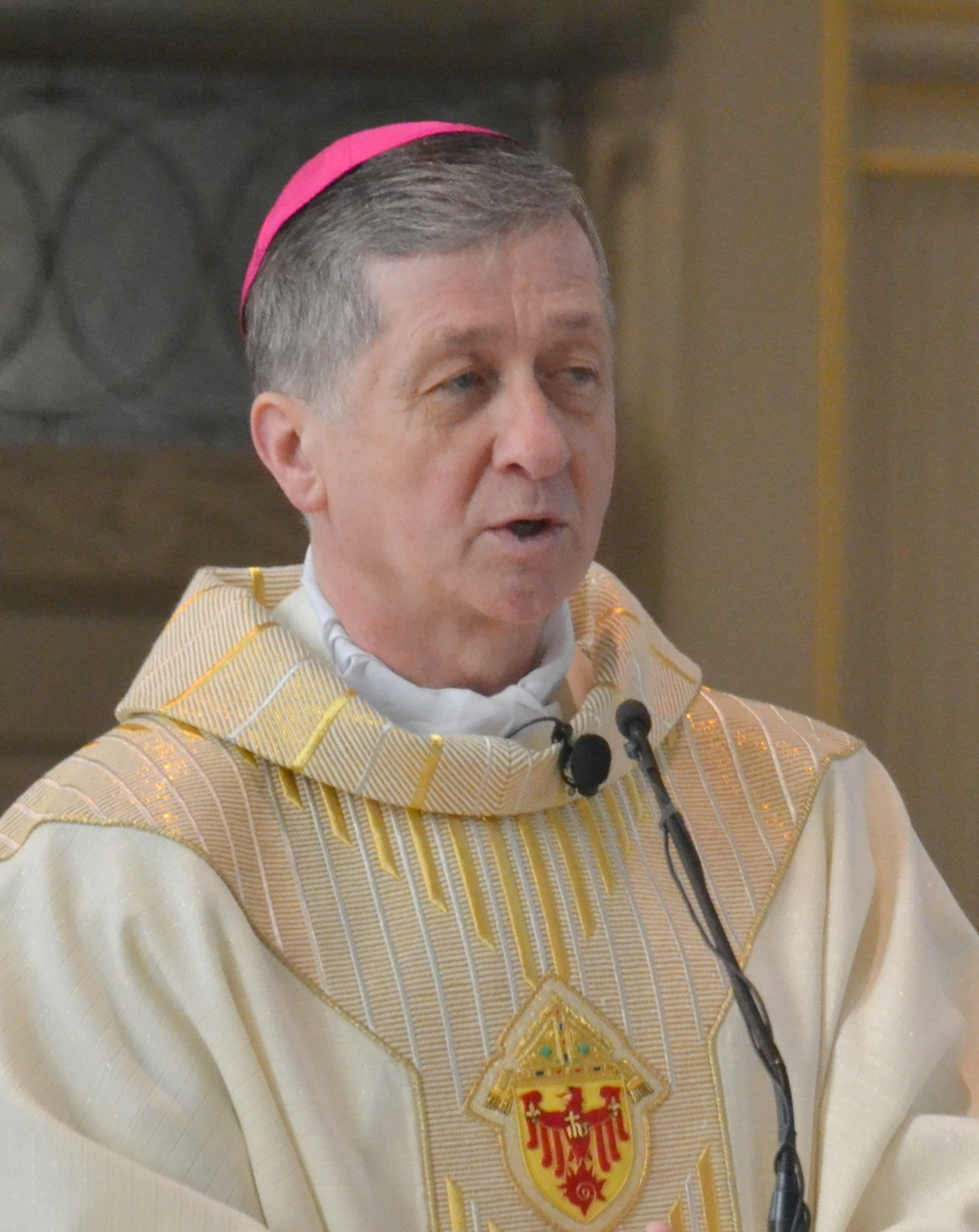 Archbishop Blase Joseph Cupich